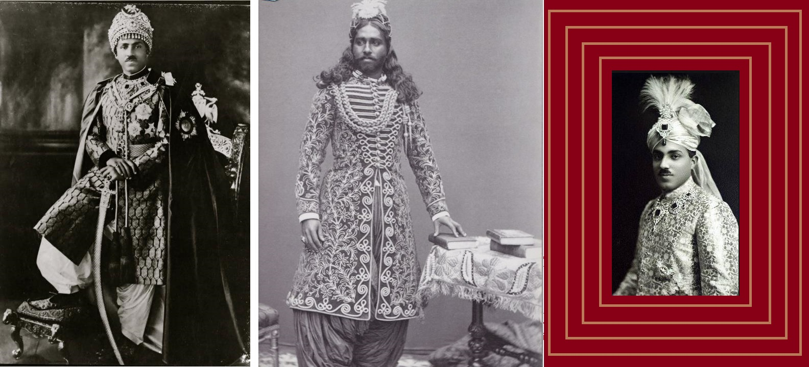 Sherwani worn by Haji Jahangir Khan (Sadiq IV) Nawab of Bhawalpur (left), Haji Jahangir Khan (Sadiq IV) Nawab of Bhawalpur in his later years (center), Sadiq V Nawab of Bhawalpur (right).